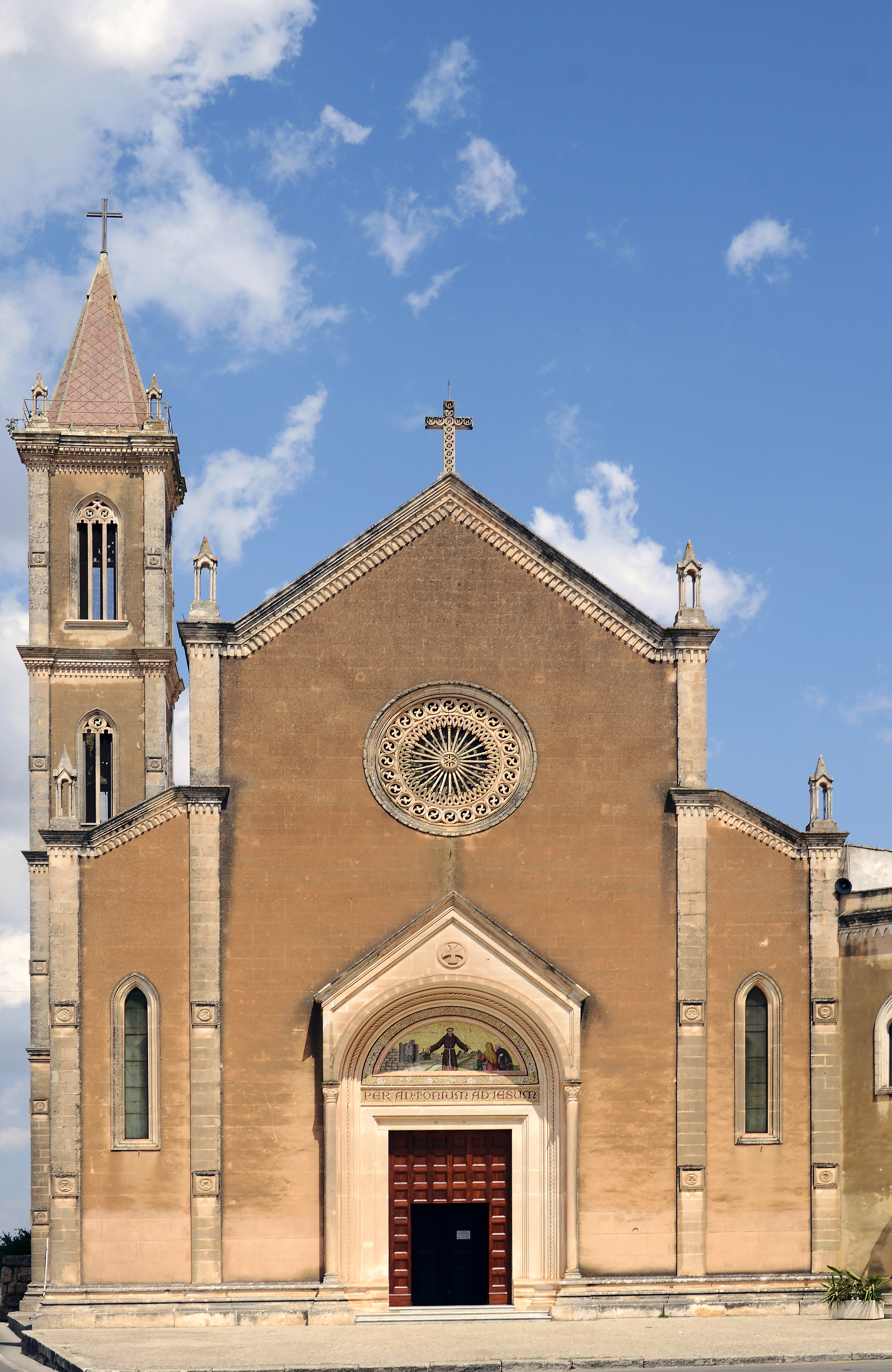 San Antonio - manduria